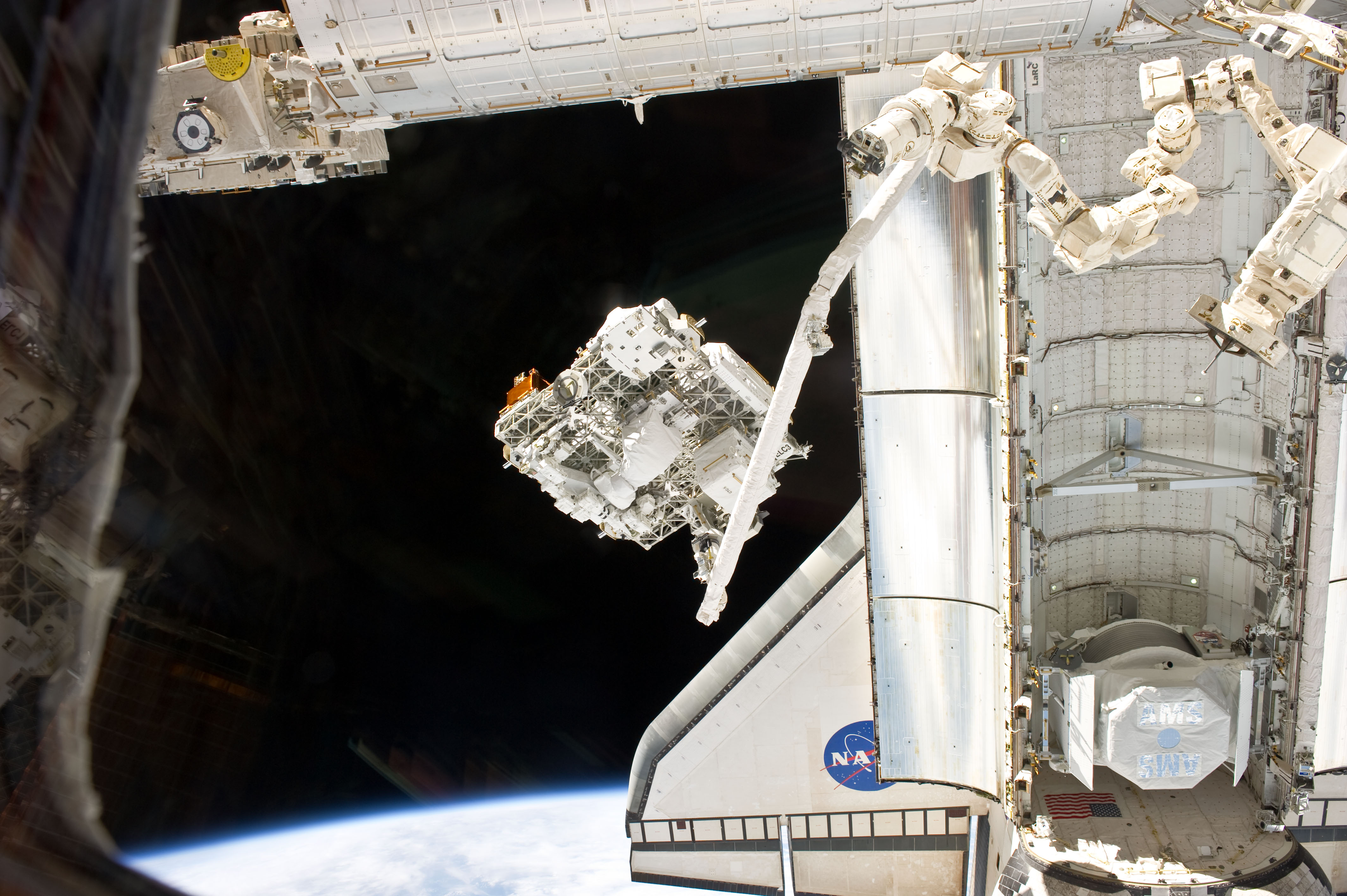 In the grasp of space shuttle Endeavour's robotic Canadarm, the Express Logistics Carrier-3 (ELC-3) is transferred from Endeavour's payload bay for hand off to the International Space Station's Canadarm2 to be installed on the left side of the station's truss structure. ELC-3 holds spare hardware for future station use, including an ammonia tank, a high pressure gas tank, a cargo transport container, two S-band antenna assemblies and a spare arm for DEXTRE, the Special Purpose Dexterous Manipulator.